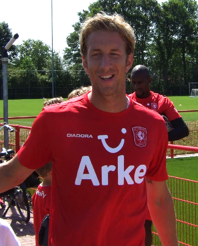 FC Twente player Marc Janko